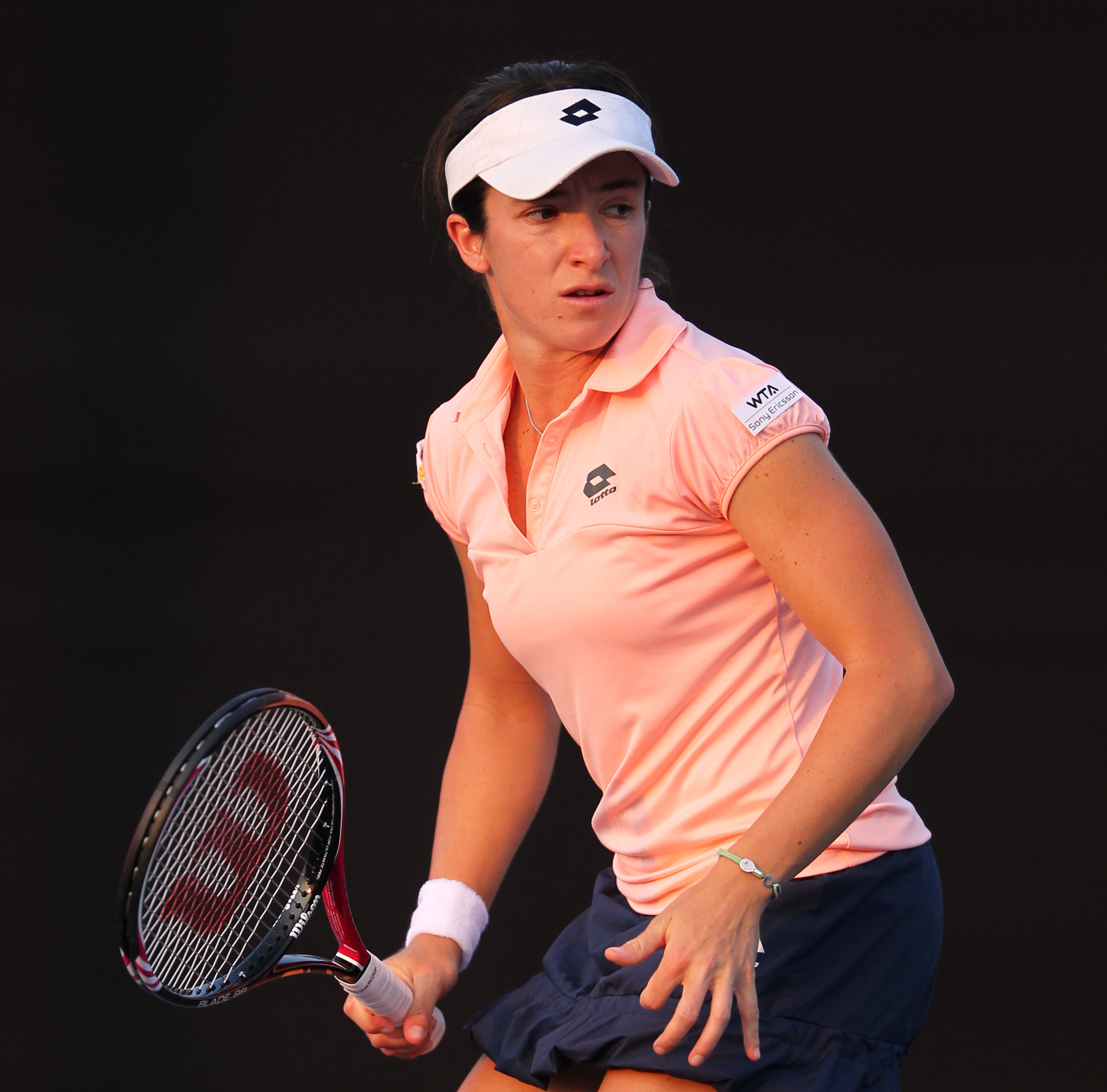 Citi Open Tennis July 29, 2011